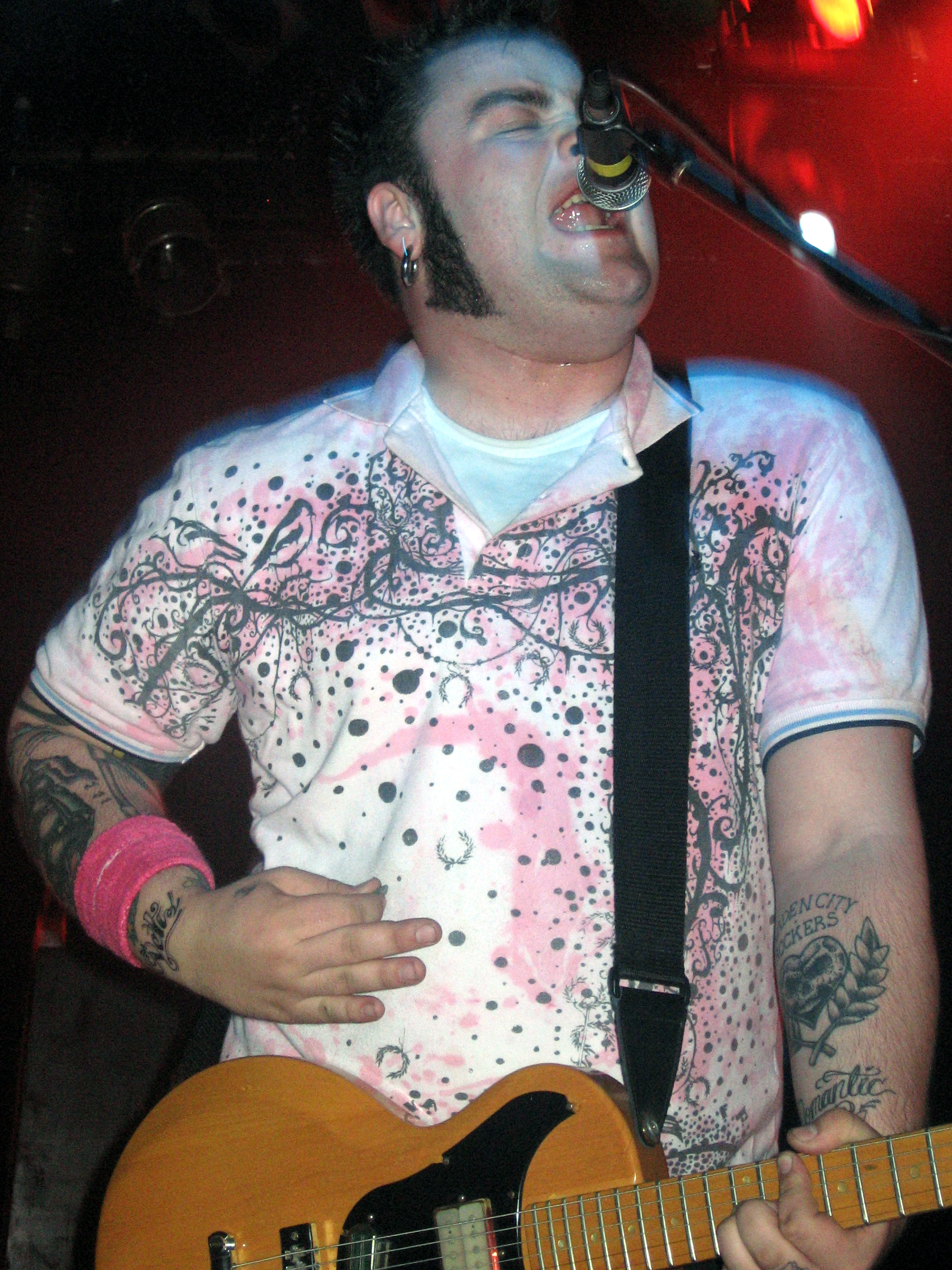 Wade MacNeil - taken by Jubella in London, England on 29th October 2005